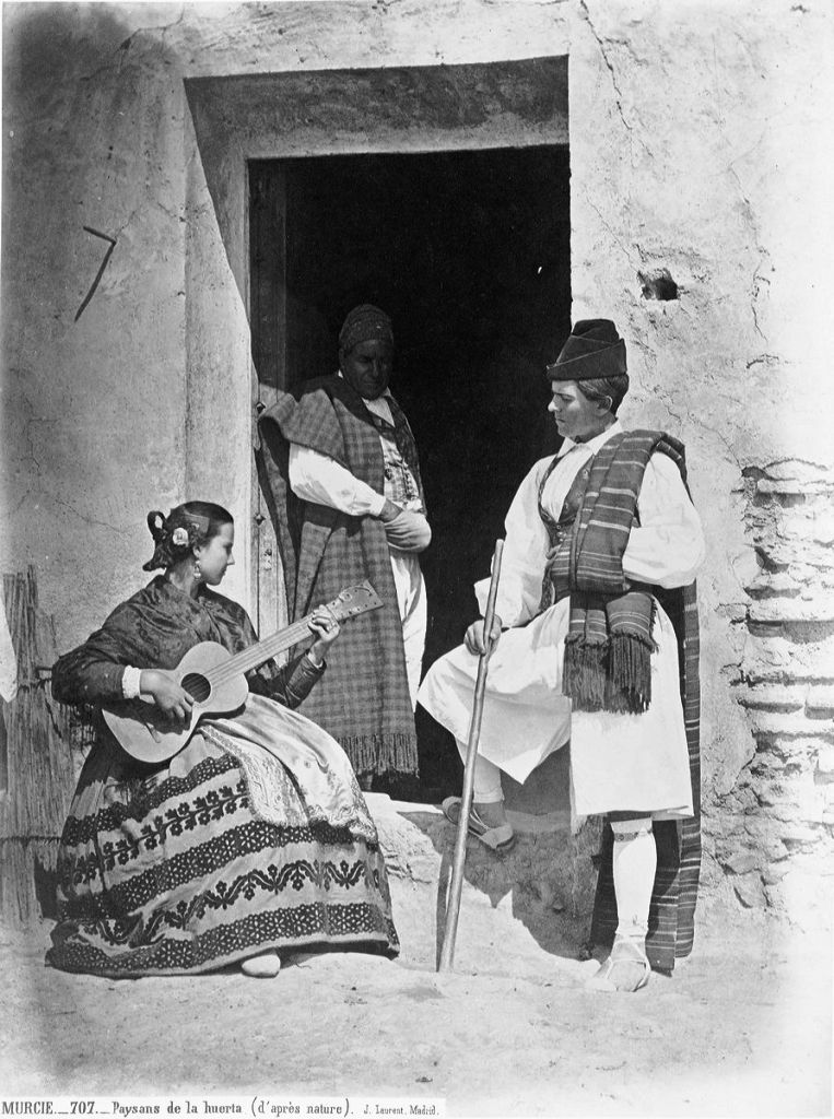 Countrymen of Murcia playing guitarro (family of the baroque guitar).